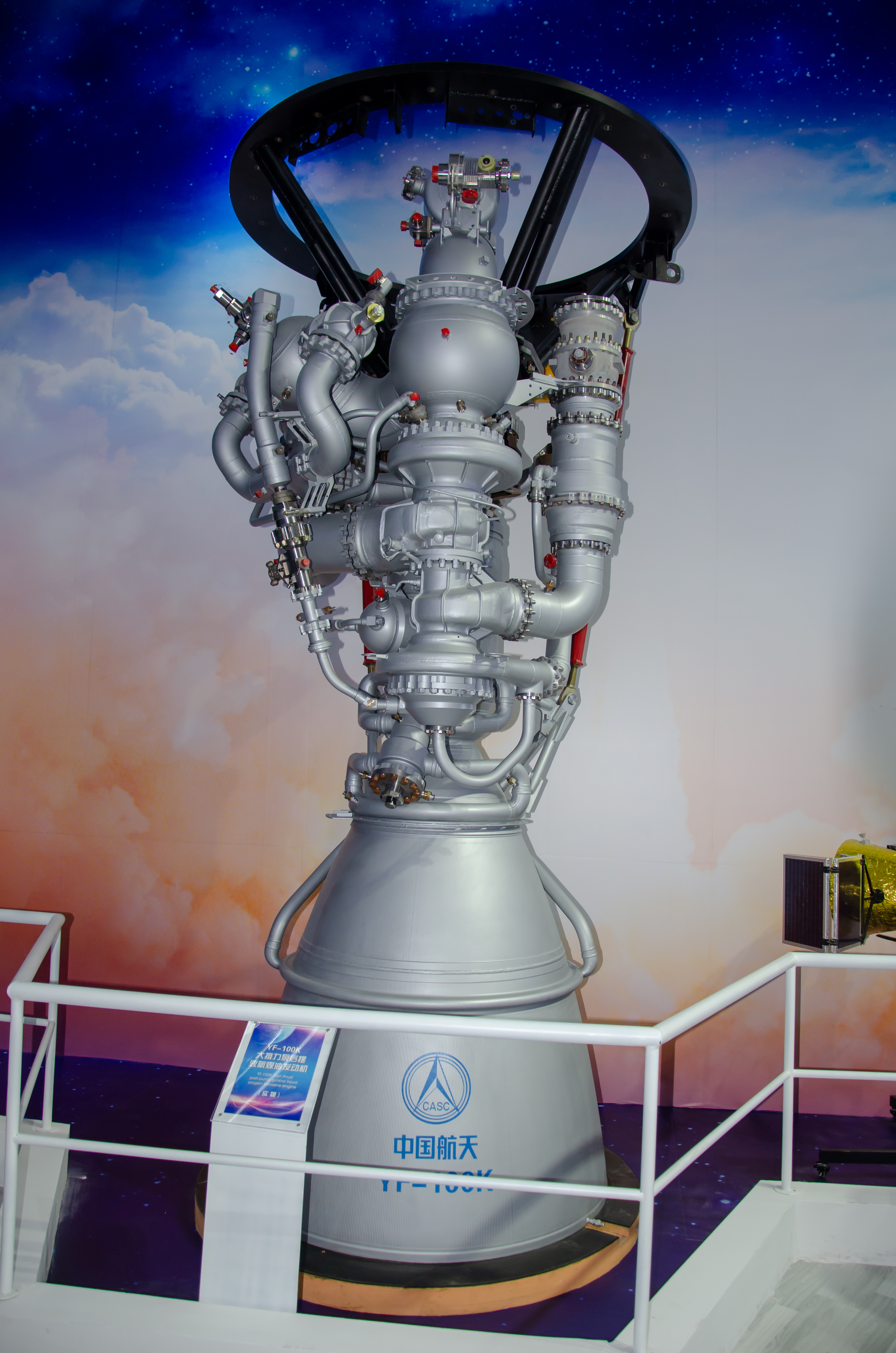 YF-100K high thrust post-pump gimbal liquid oxygen kerosene engine